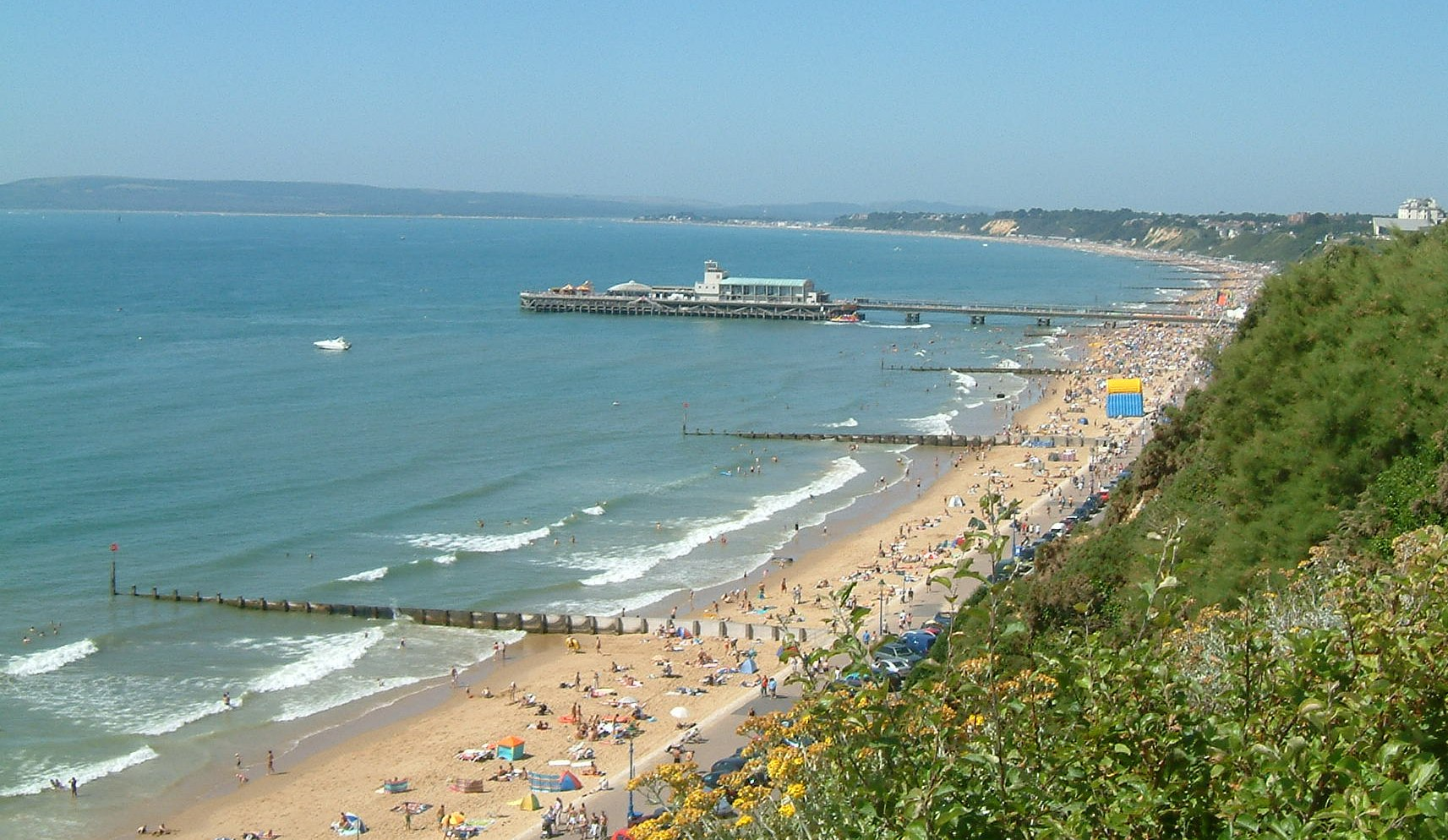 Bournemouth, England, United-Kingdom